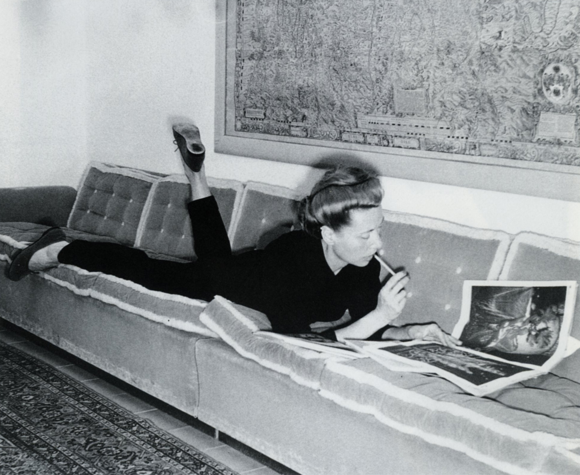 Lola Beer in her Studio on Yarkon Street in Tel Aviv-Yaffo